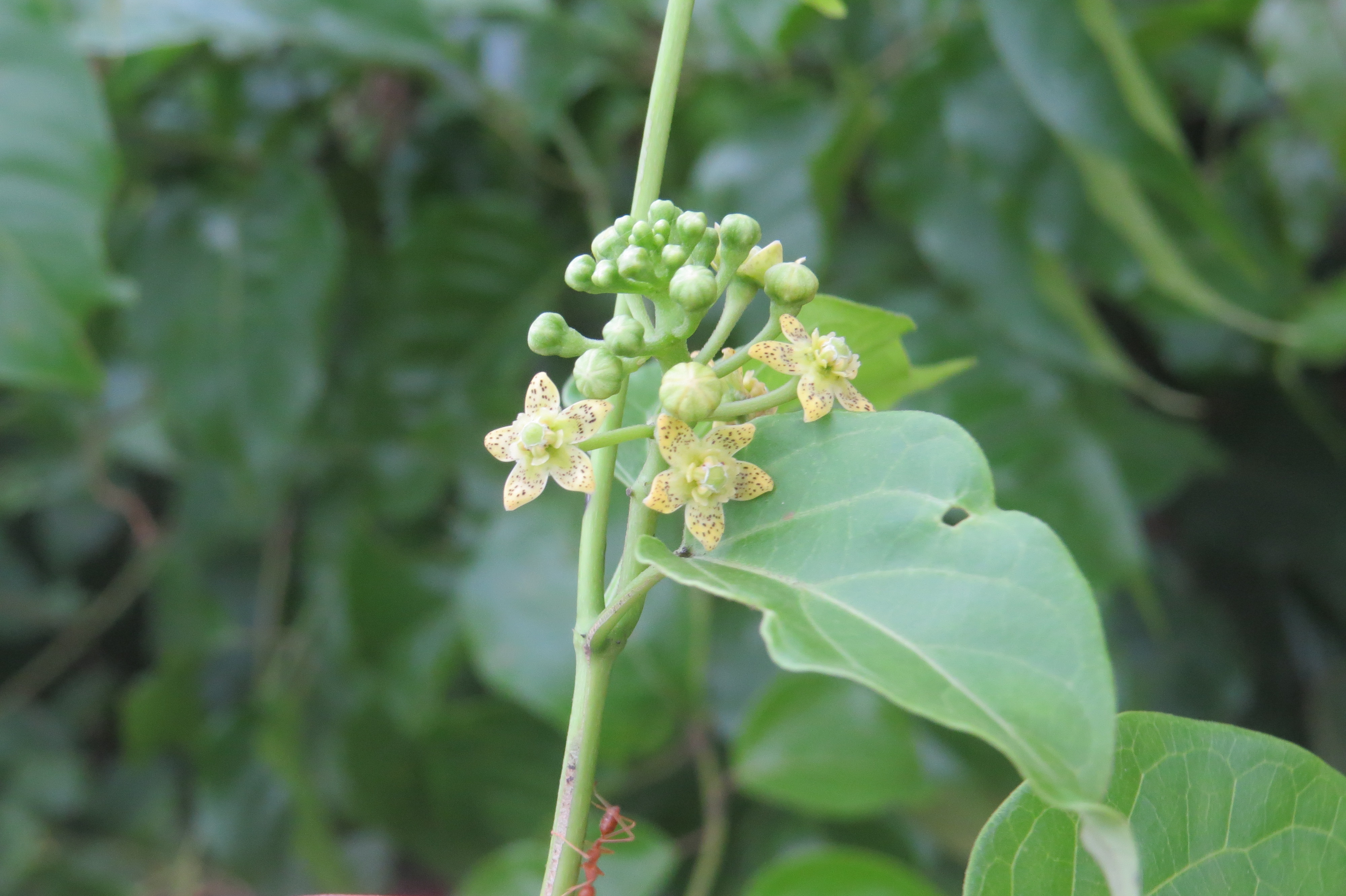 Photos from 2014 by Vinayaraj